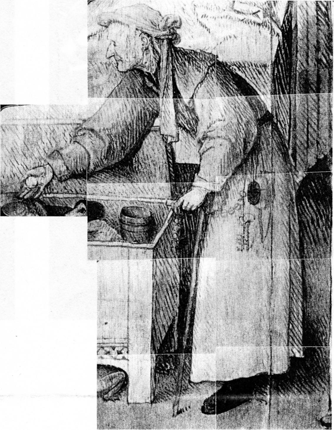 Death and the Usurer [infrared reflectogram of a detail].